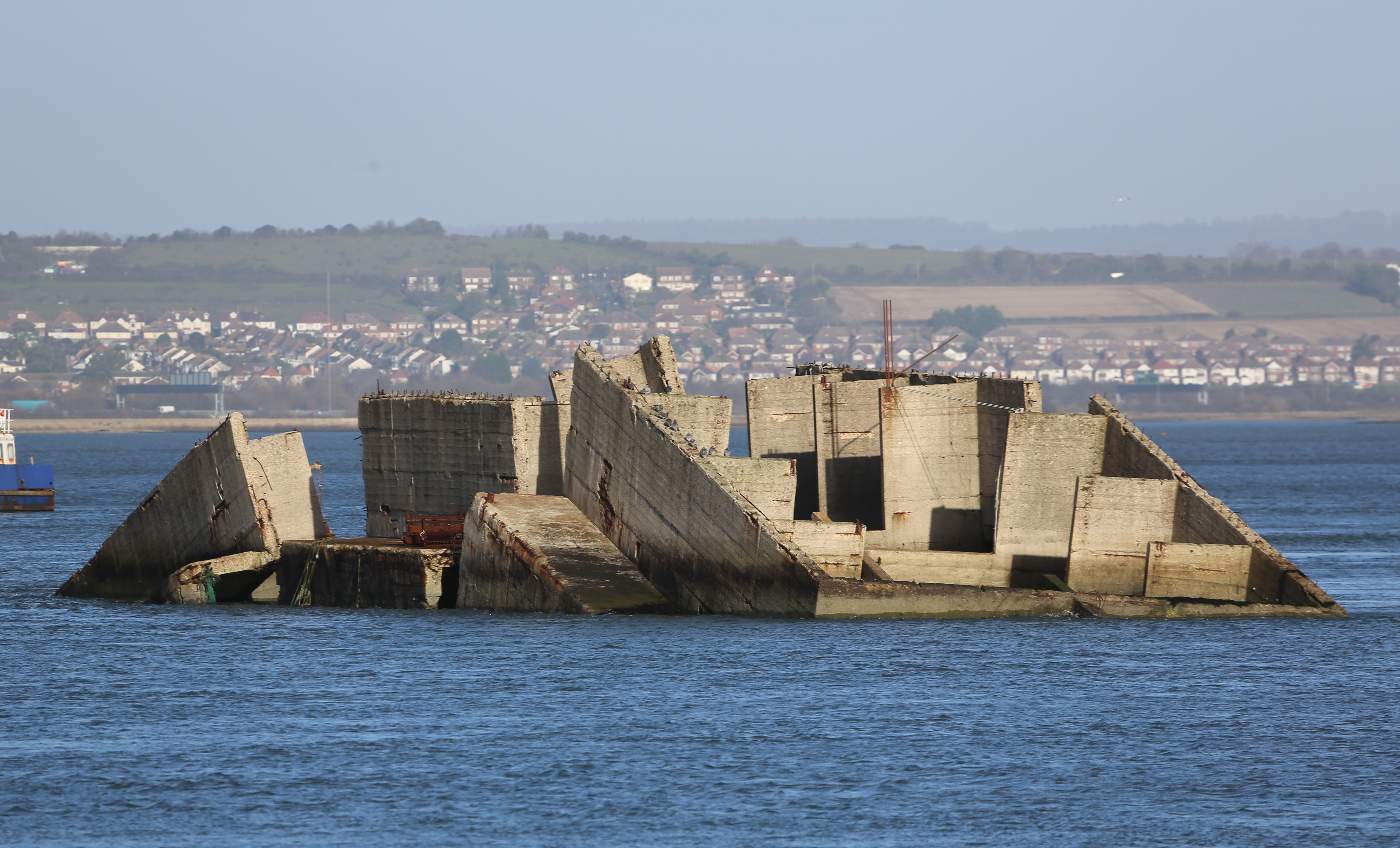 The remains of a Phoenix breakwater type C in Langstone Harbour